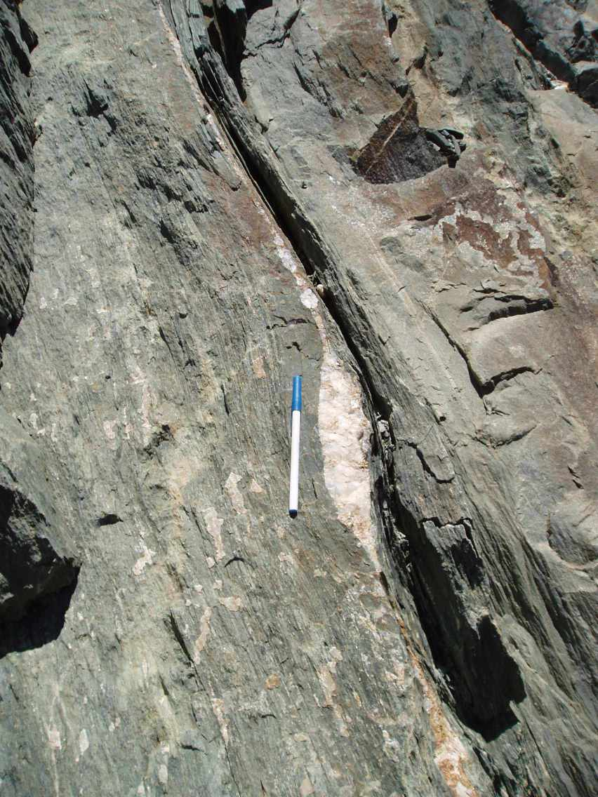 Roland Gotthard, own photograph 2004, copyright Roland Gotthard, free use with citation.